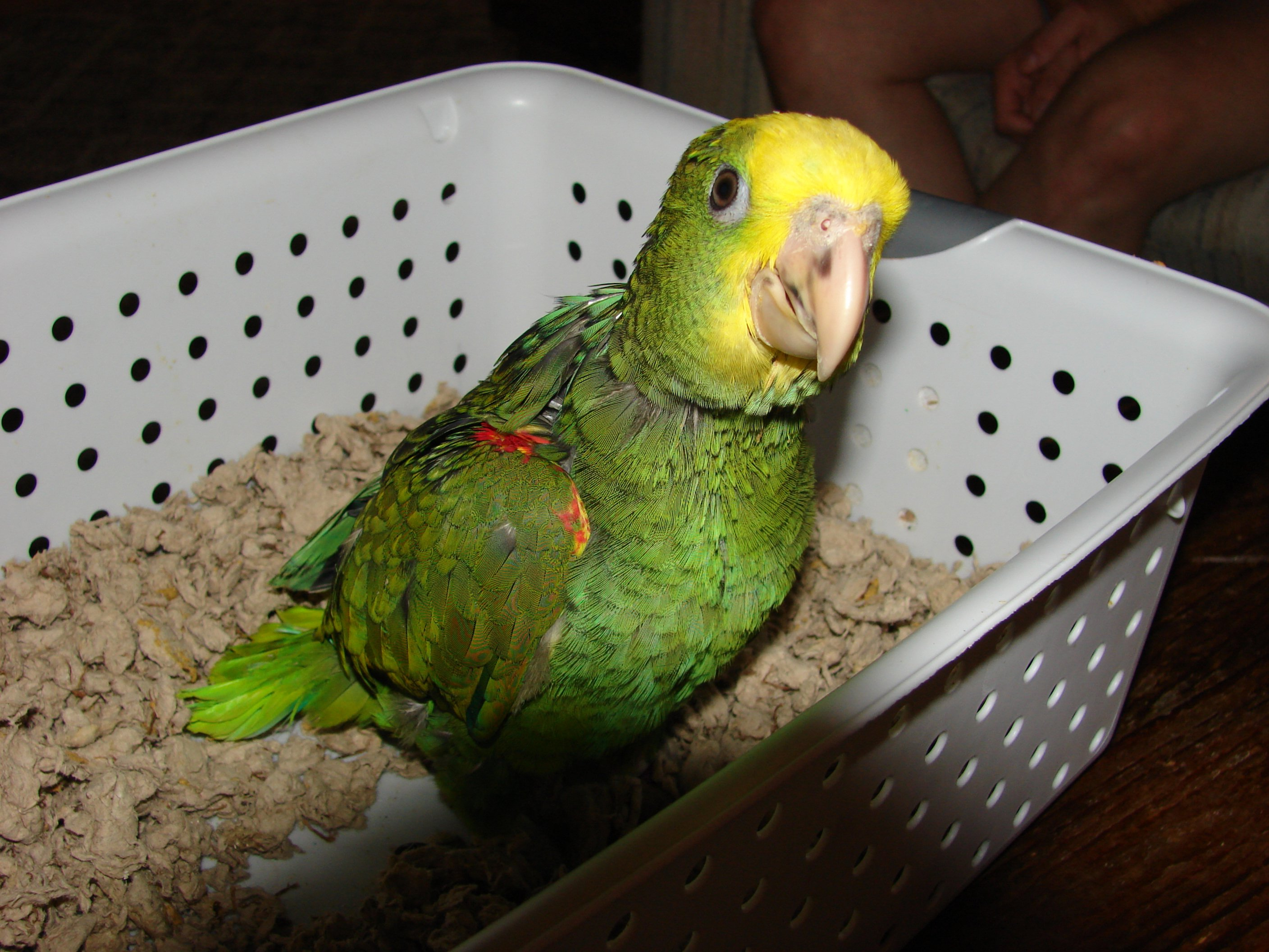 Baby (Amazona oratrix)